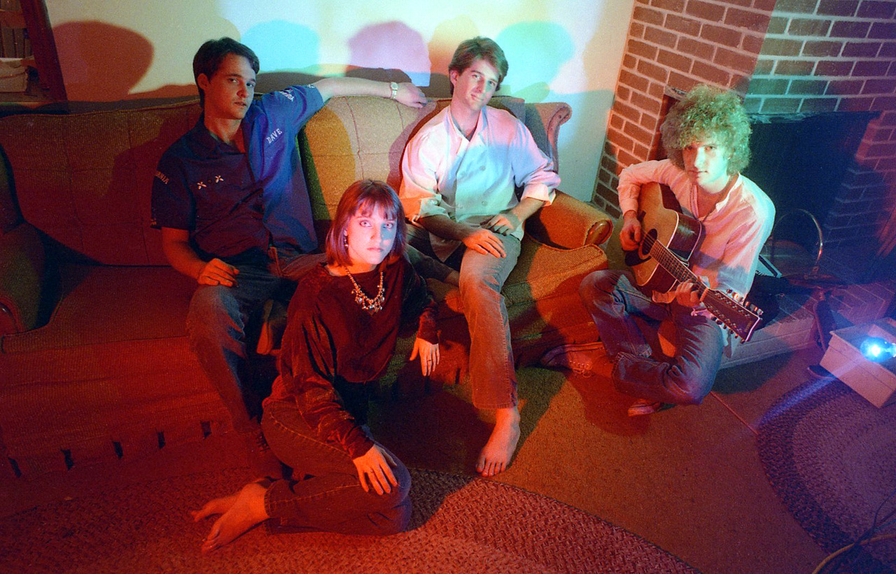 Game Theory band photo, 1983. Unused outtake from original cover shoot for Real Nighttime album. Left to right: Dave Gill, Nancy Becker, Fred Juhos, Scott Miller.